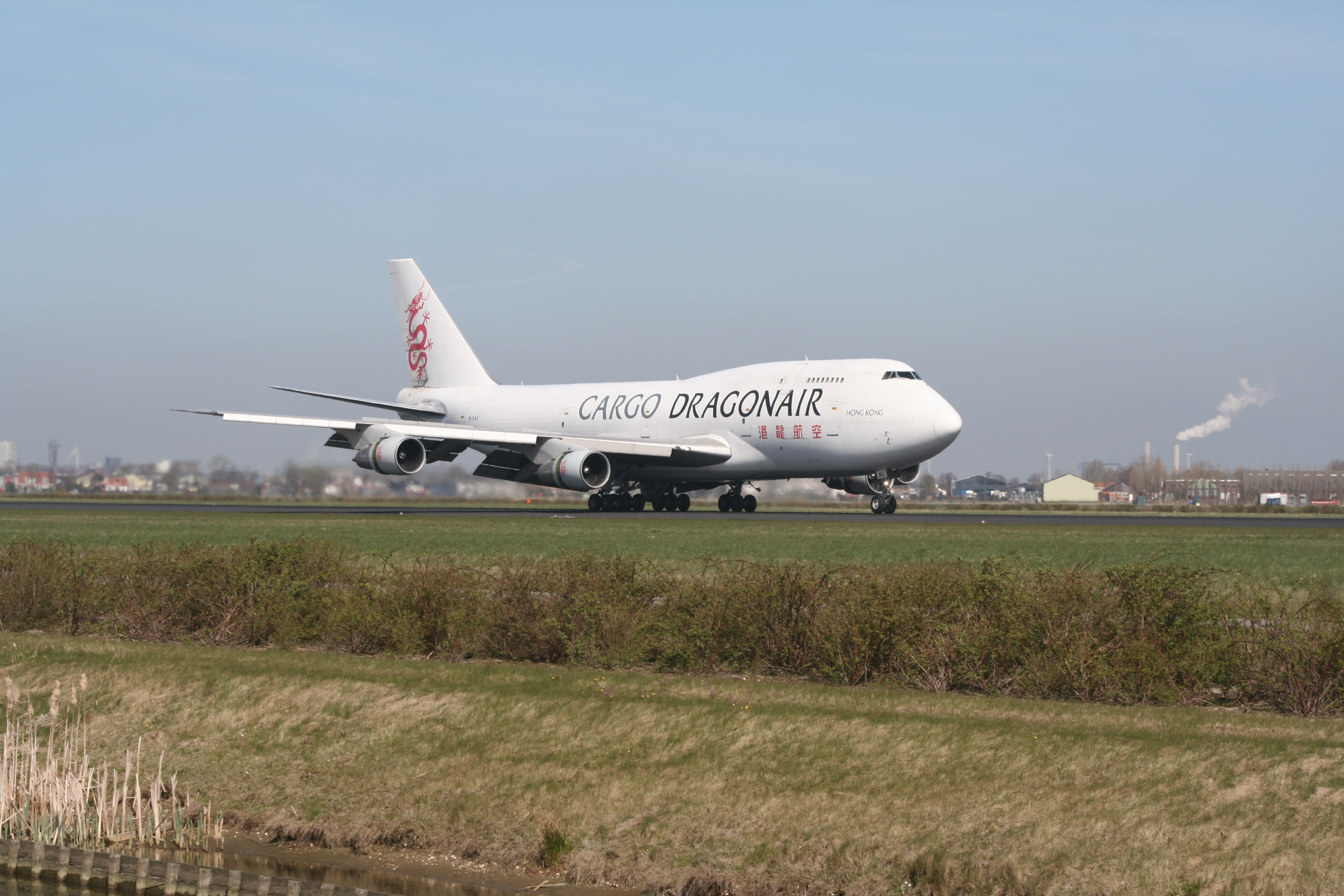 Dragonair Cargo Boeing 747-300 (B-KAC) at Schiphol Airport